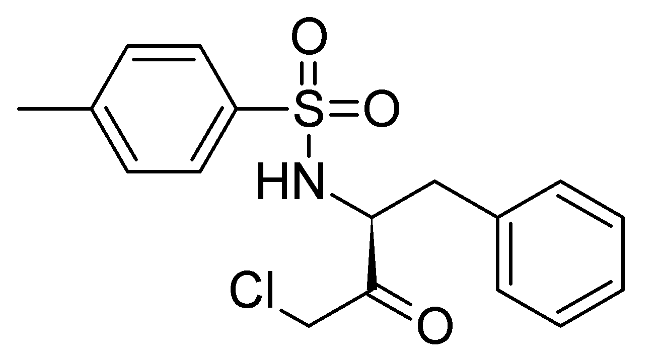 Tosyl phenylalanyl chloromethyl ketone (TPCK) I made it myself using ACD/ChemSketch